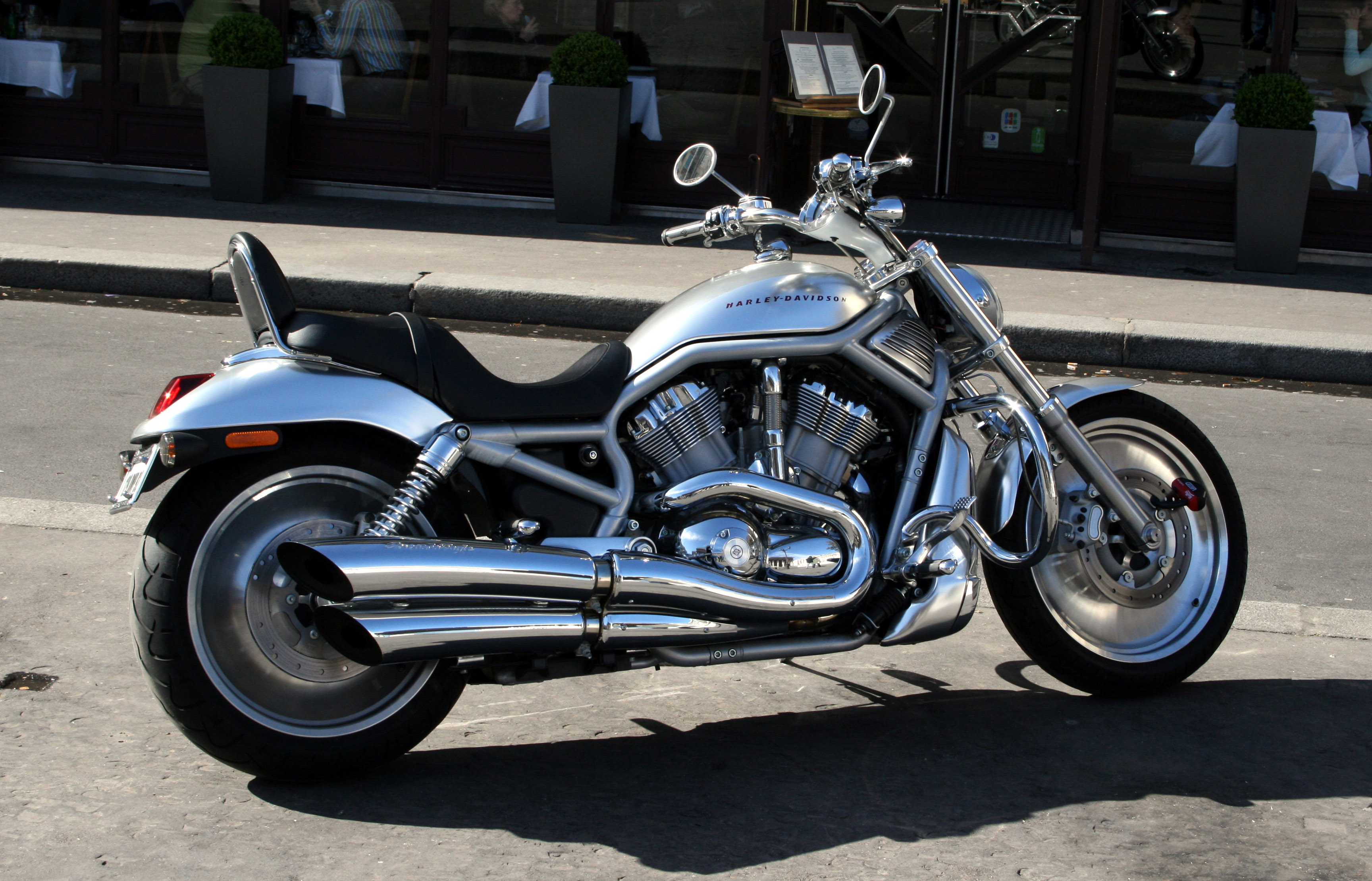 Une moto Harley Davidson